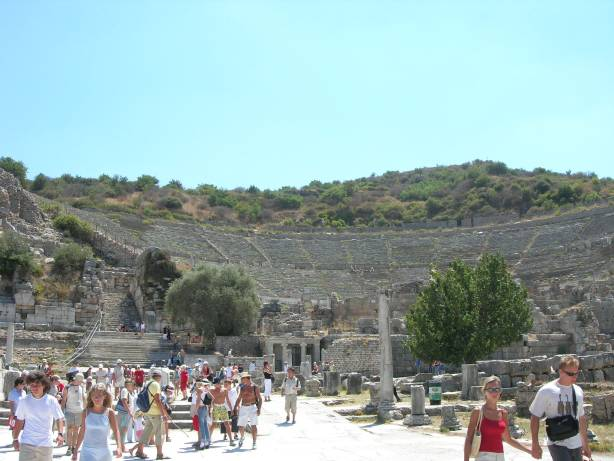 Ephesus, Turkey: the ancient theatre.